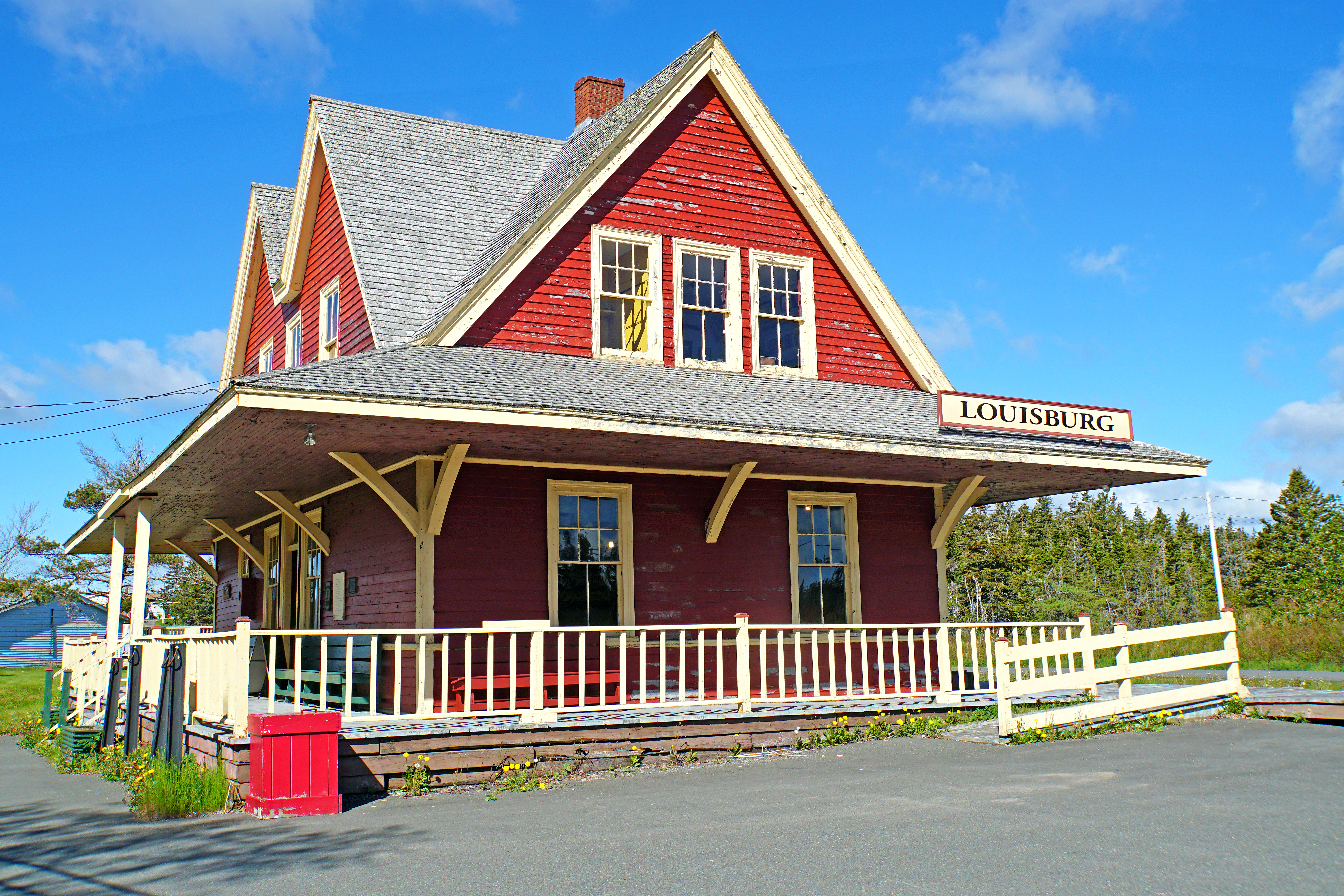 PLEASE, NO invitations or self promotions, THEY WILL BE DELETED. My photos are FREE to use, just give me credit and it would be nice if you let me know, thanks. Sydney & Louisbourg Railway Museum, pictures and artifacts tell the story in and around the 1895 station and engine house. The young lady at the station was great and showed us all around, even opening other buildings.